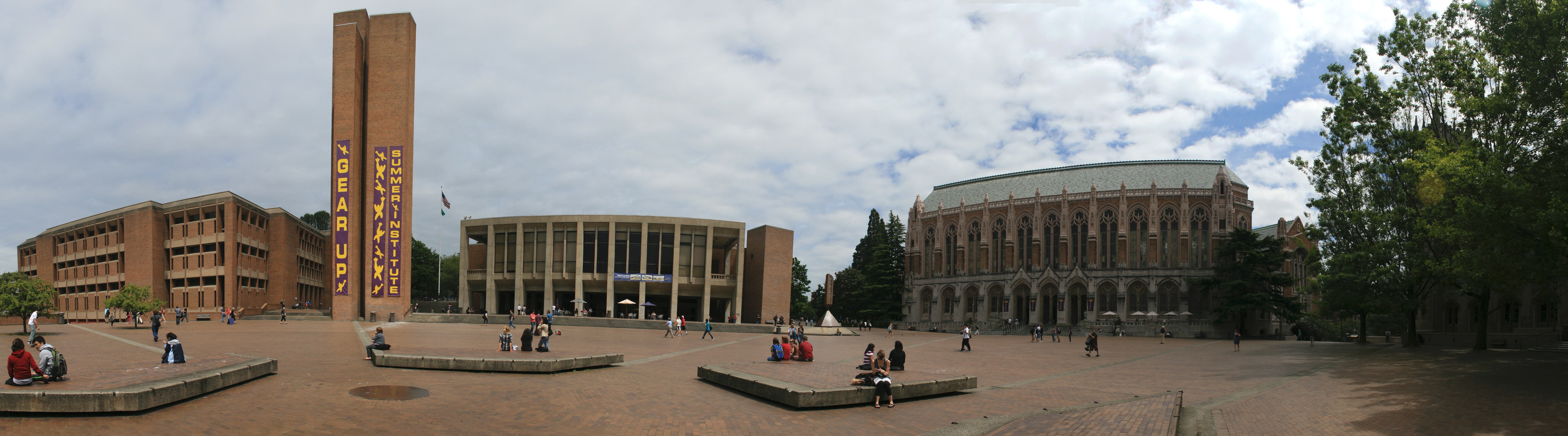 Red Square, University of Washington panorama